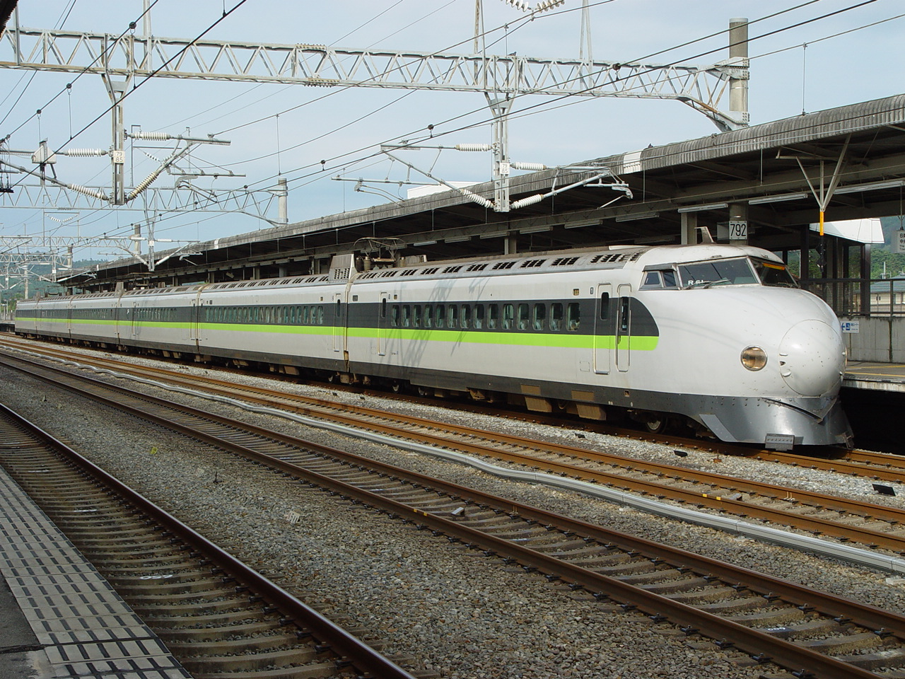 Reliveried JR West 0 series 6-car unit R61 at Higashi-Hiroshima Station on the Sanyo Shinkansen Kodama 635 service from Shin-Osaka to Hakata